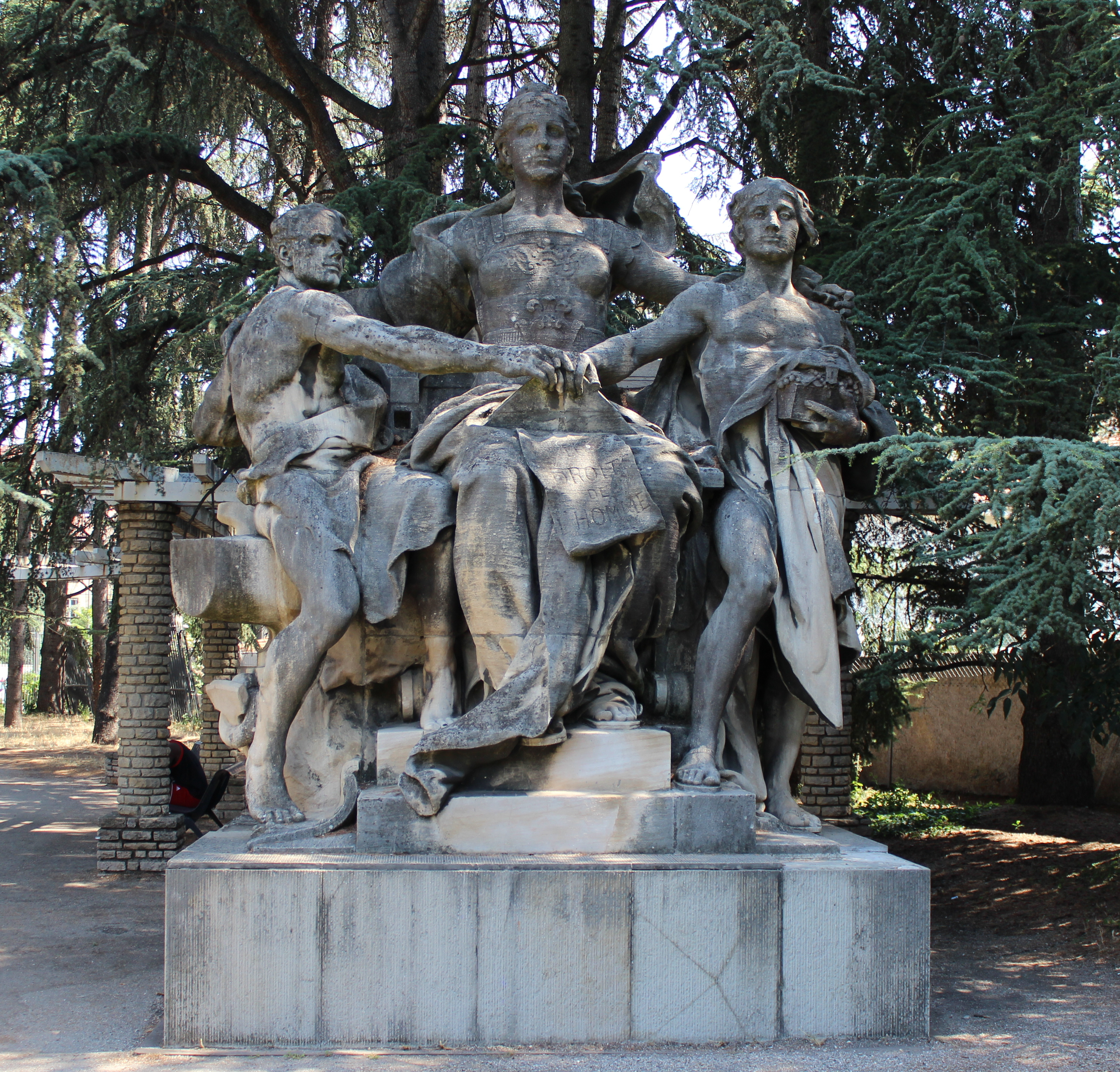 Statue of Equality hands resting on the shoulders of men whose own hands hold the charter of the Rights of man which rests on the knee of the allegory